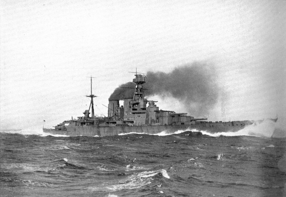 HMS Hood on her speed trials Photo: W. Robertson & Co.